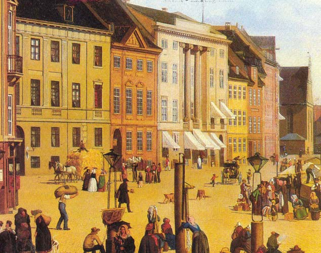 Ved Stranden in Copenhagen, Denmark.